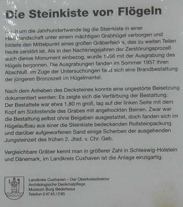 Steinkiste von Flögeln